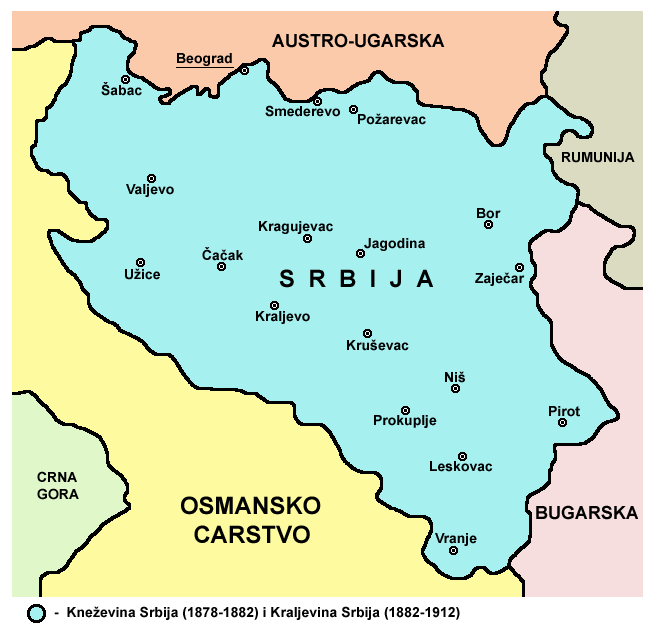 Principality of Serbia (1878-1882) and Kingdom of Serbia (1882-1912) - Serbian language Latin script version.